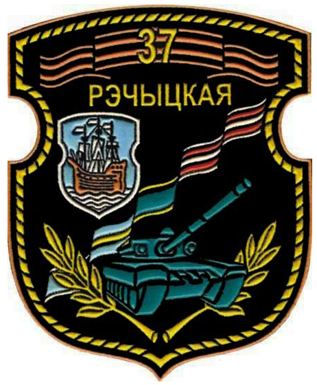 Patch of the 37th Guards Weapons and Equipment Storage Base of the Belarus Armed Forces